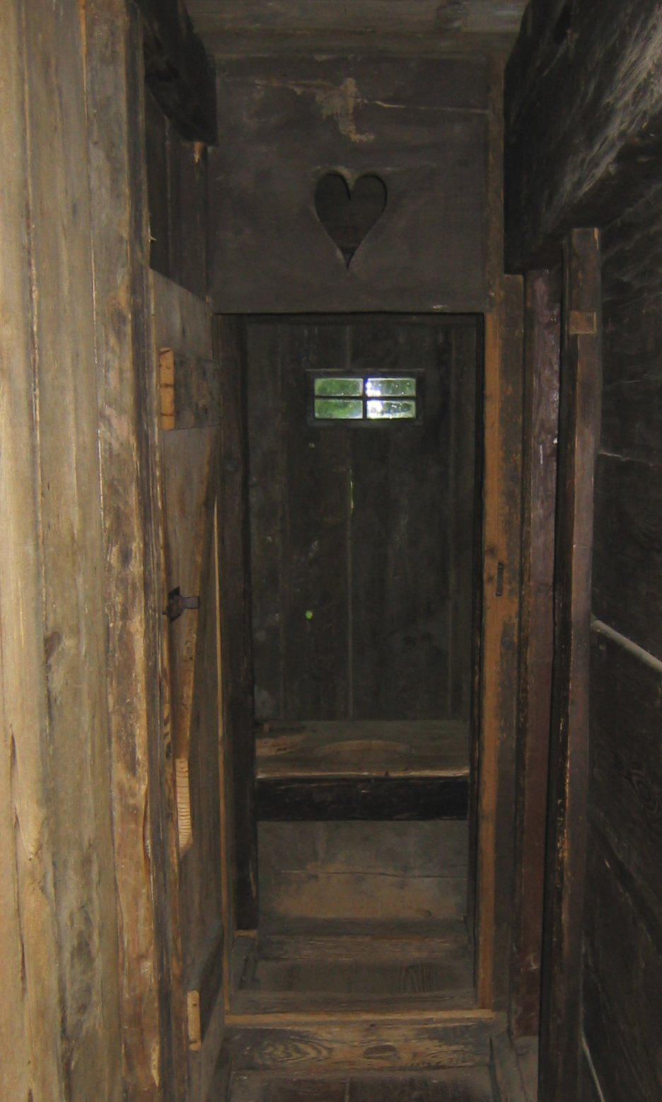 Outhouse at the Freilichtmuseum Neuhausen ob Eck